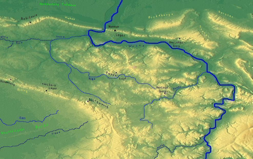 Hillcastles of the early iron age in East-Westfalia